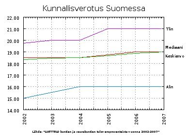 A time series graph of local taxation in Finland between 2002 and 2007.